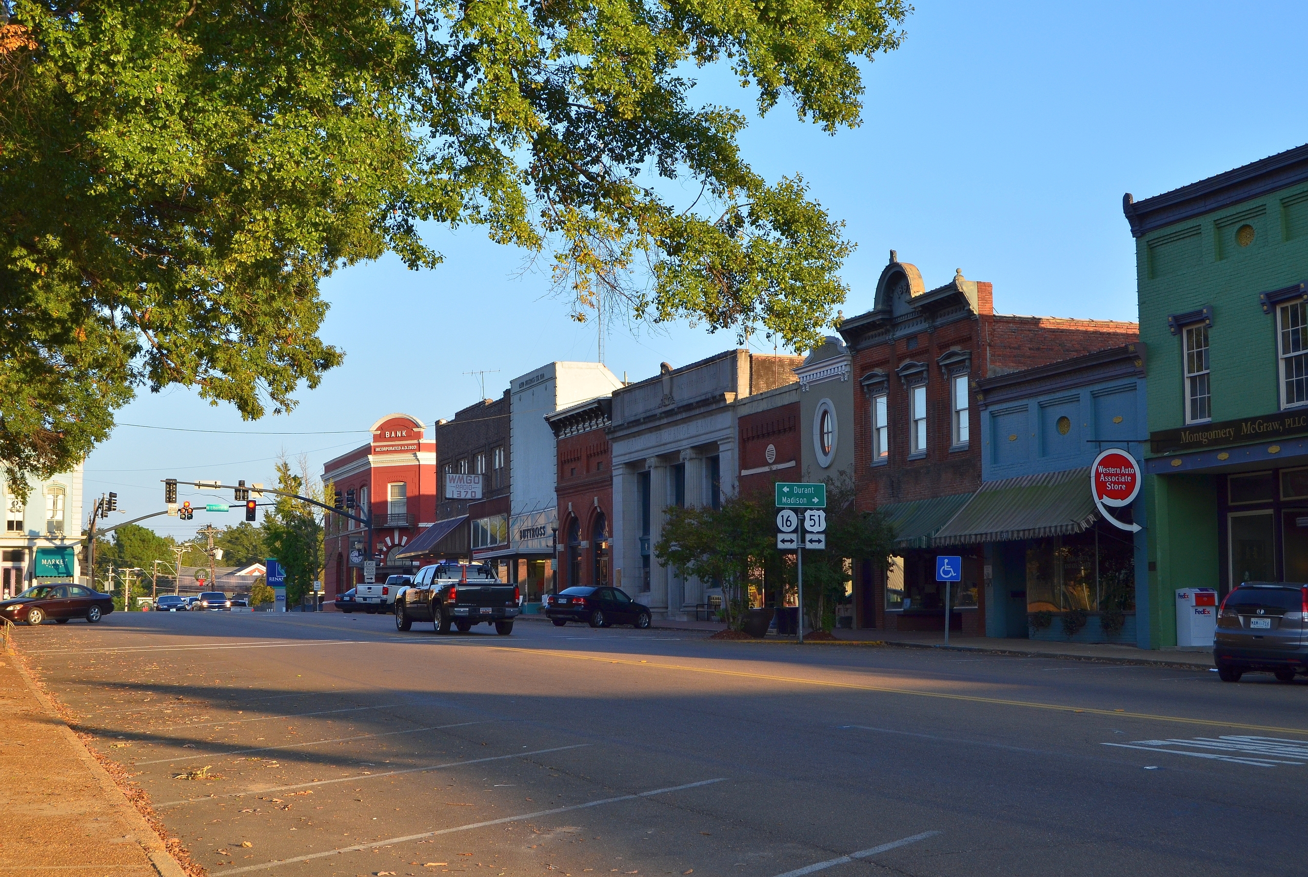 Peace Street on Courthouse Square, Canton, Mississippi.